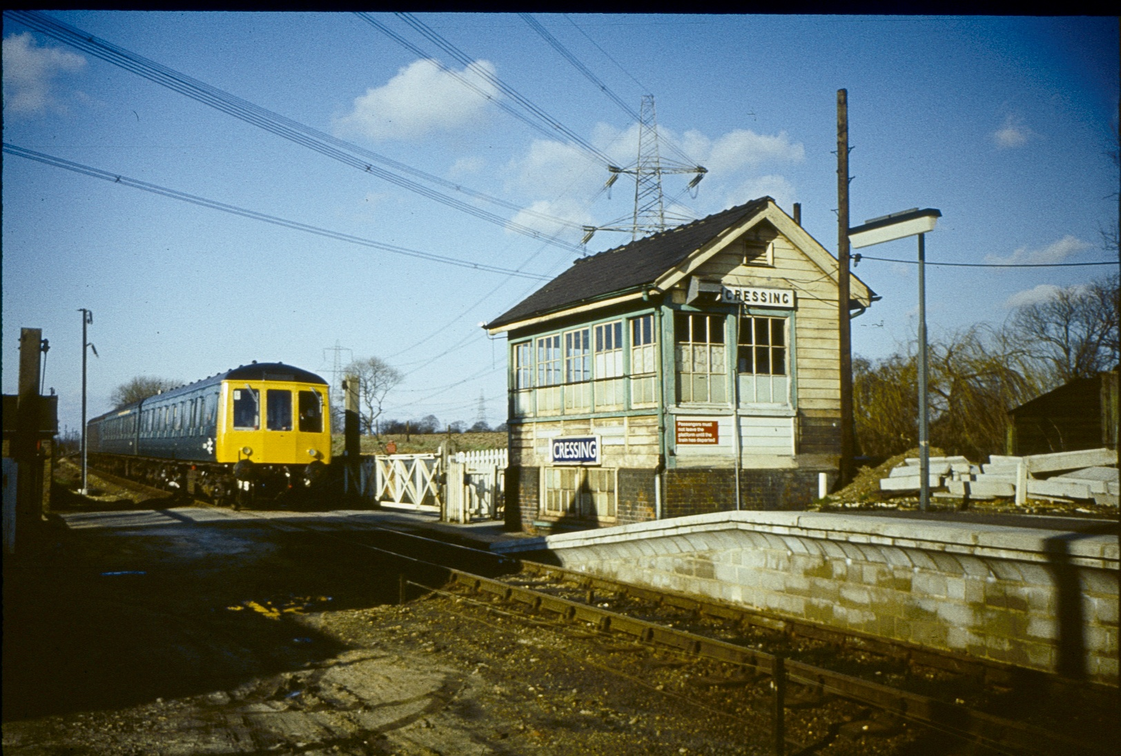 November 1976. These pictures were taken immediately before electrification was completed.